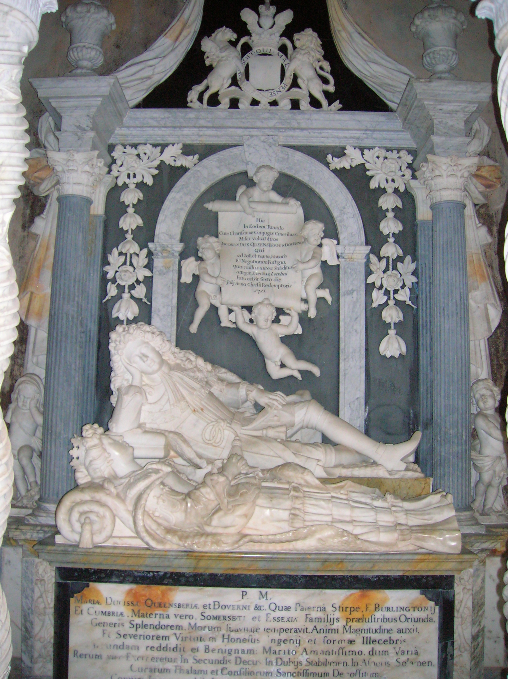 The memorial to Mary, Duchess of Queensberry and Dover and her husband (James Douglas, 2nd Duke of Queensberry) at Durisdeer, Dumfries & Galloway, Scotland. By Van Noost, early 18th century.